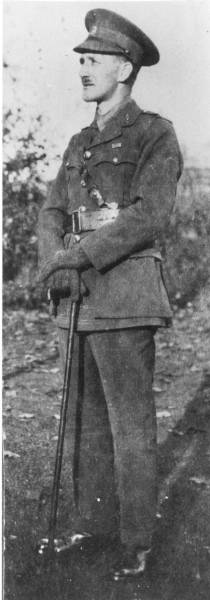 Portrait of Fred Waite taken during WWI.